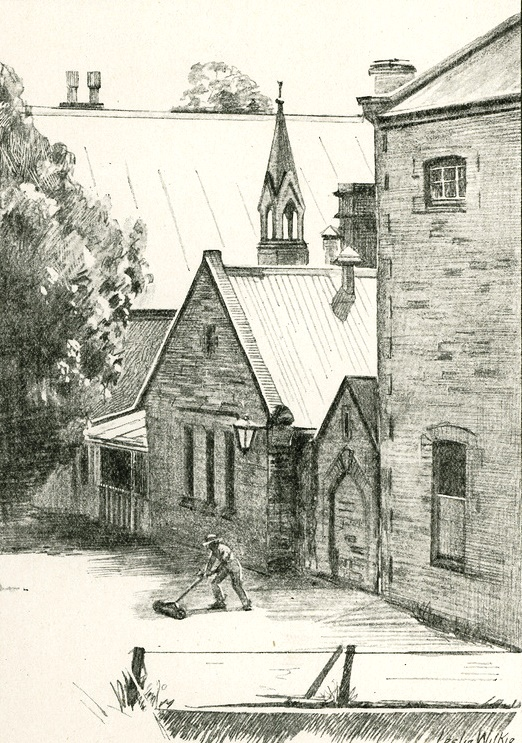 Low verandah (also serving as covered walkway to matron's office) obscuring matron's room (with open spire), adjoins nurses' quarters with triple leadlights (previously a chapel ?); archway (blocked); part of kitchen. Artwork by Leslie Wilkie